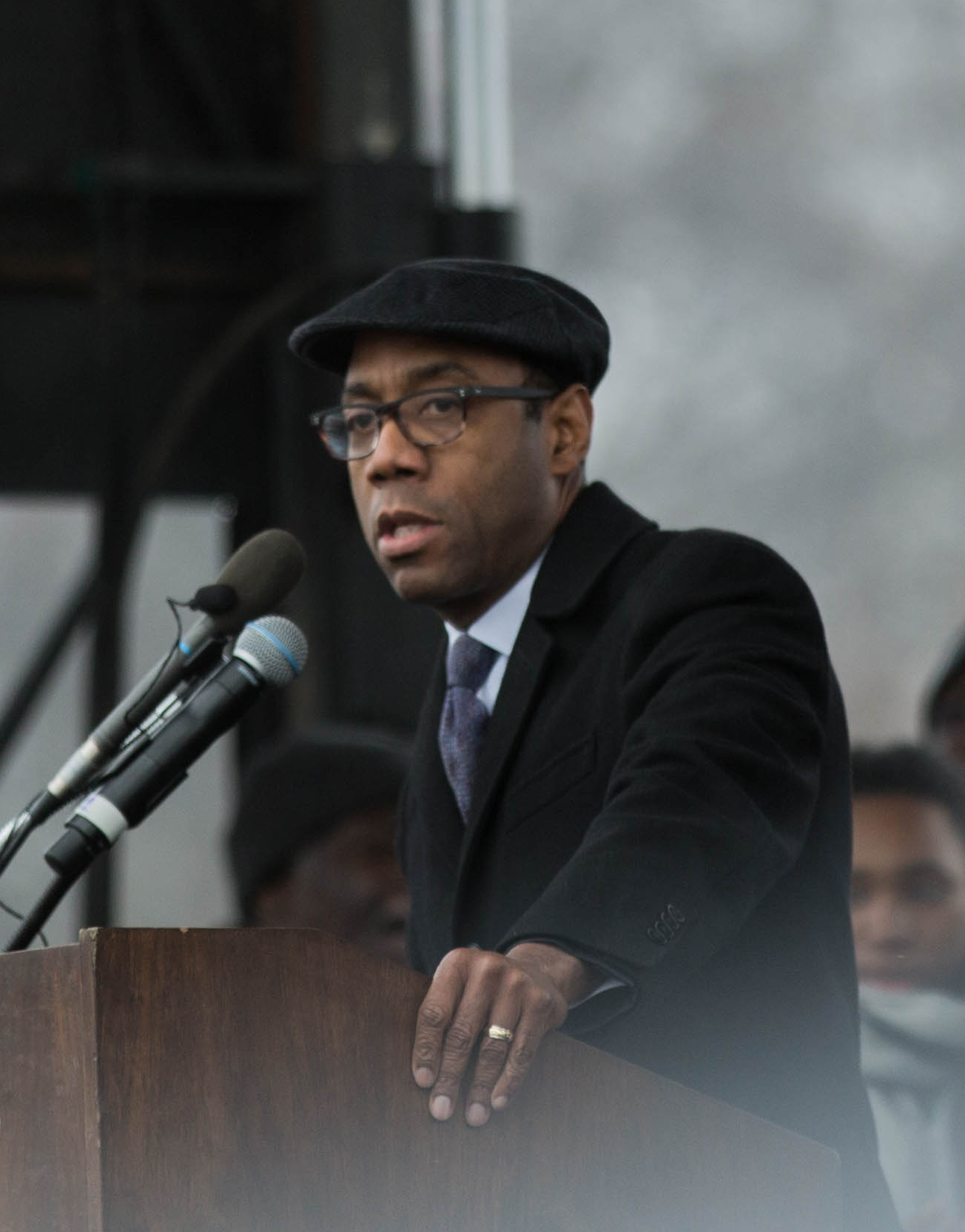 Cornell William Brooks, NAACP President & CEO, We Shall Not Be Moved Rally, Washington DC (CROP).jpg